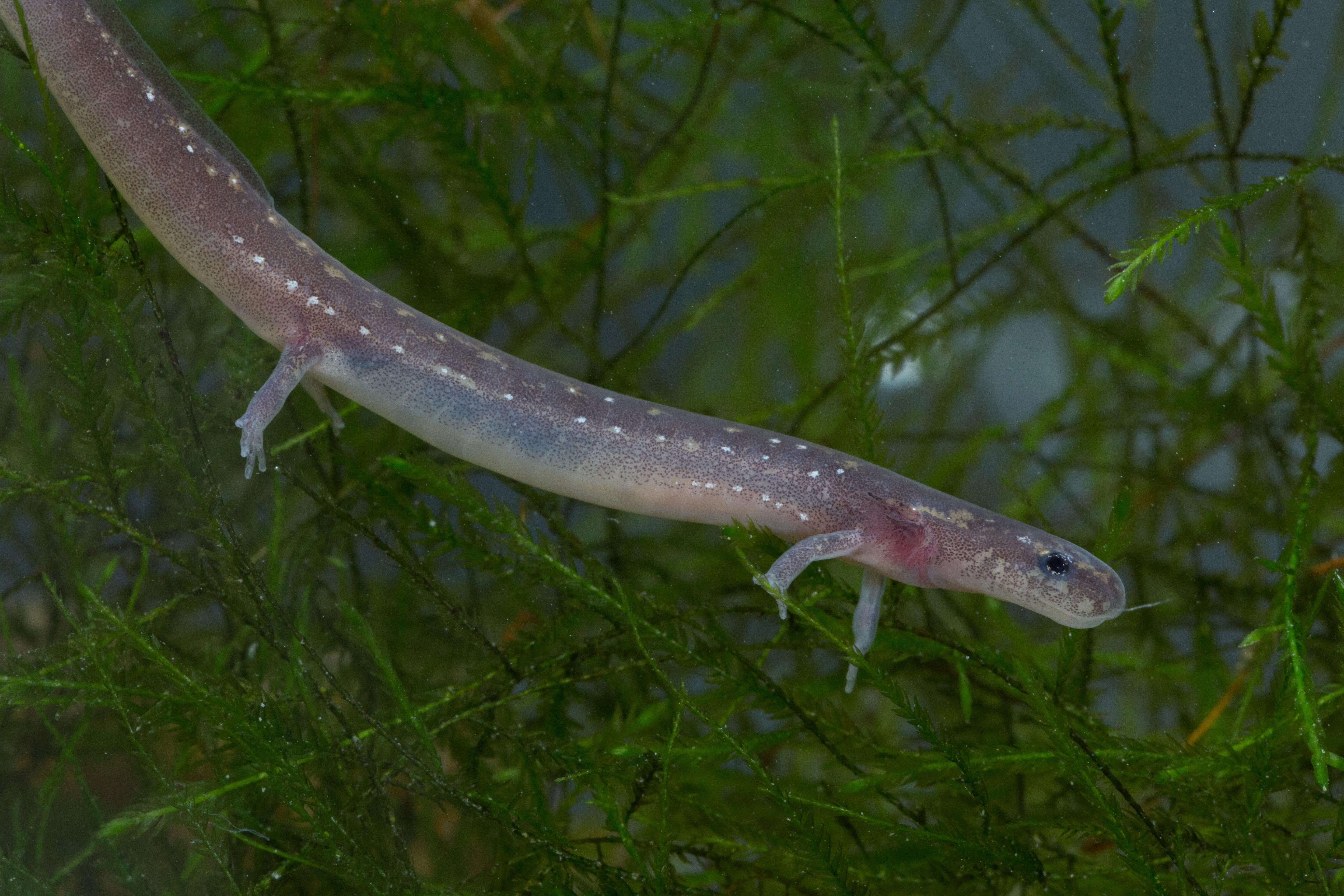 San Marcos salamander (Eurycea nana)